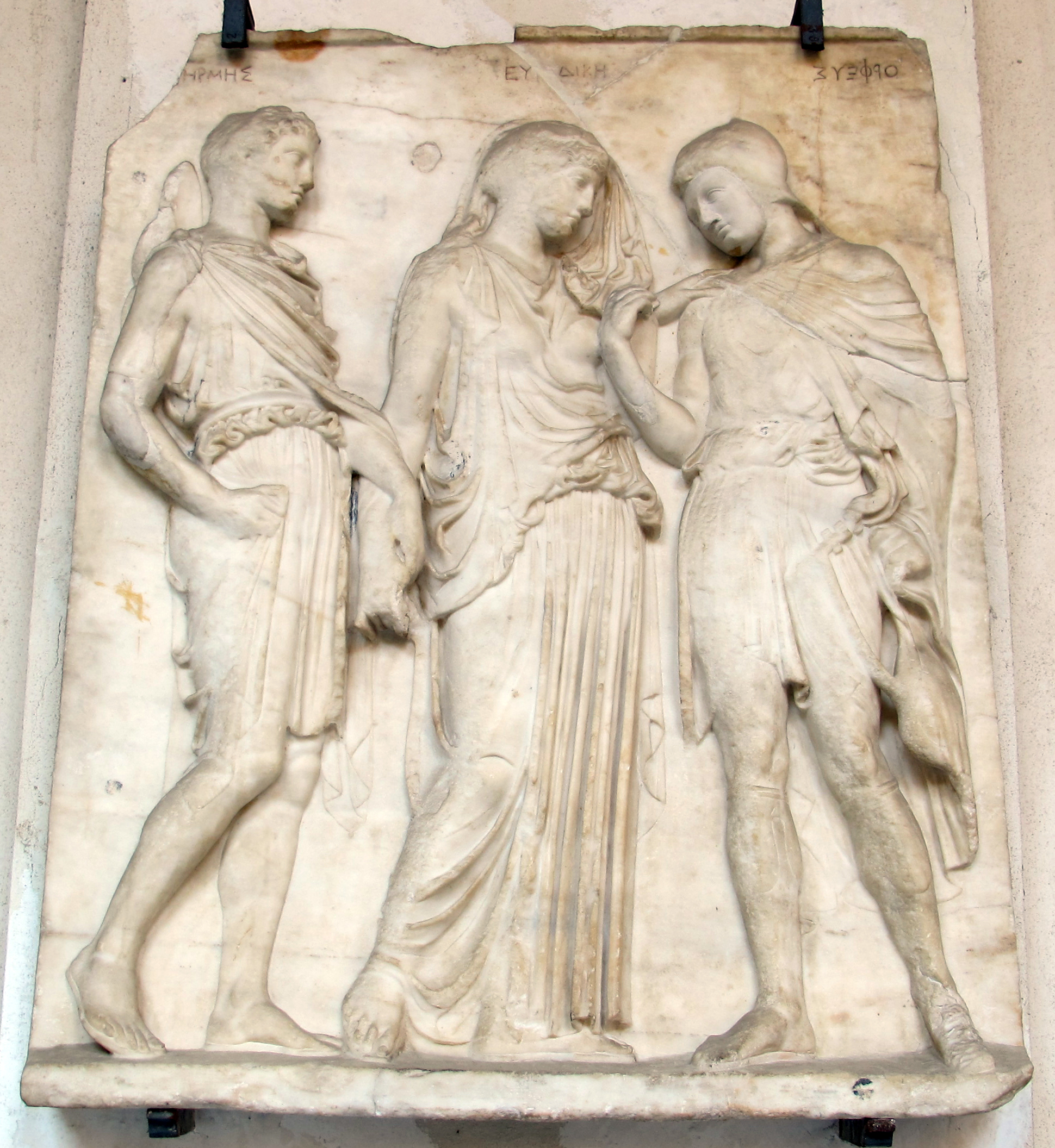 Ancient Roman reliefs in the Museo Archeologico (Naples)